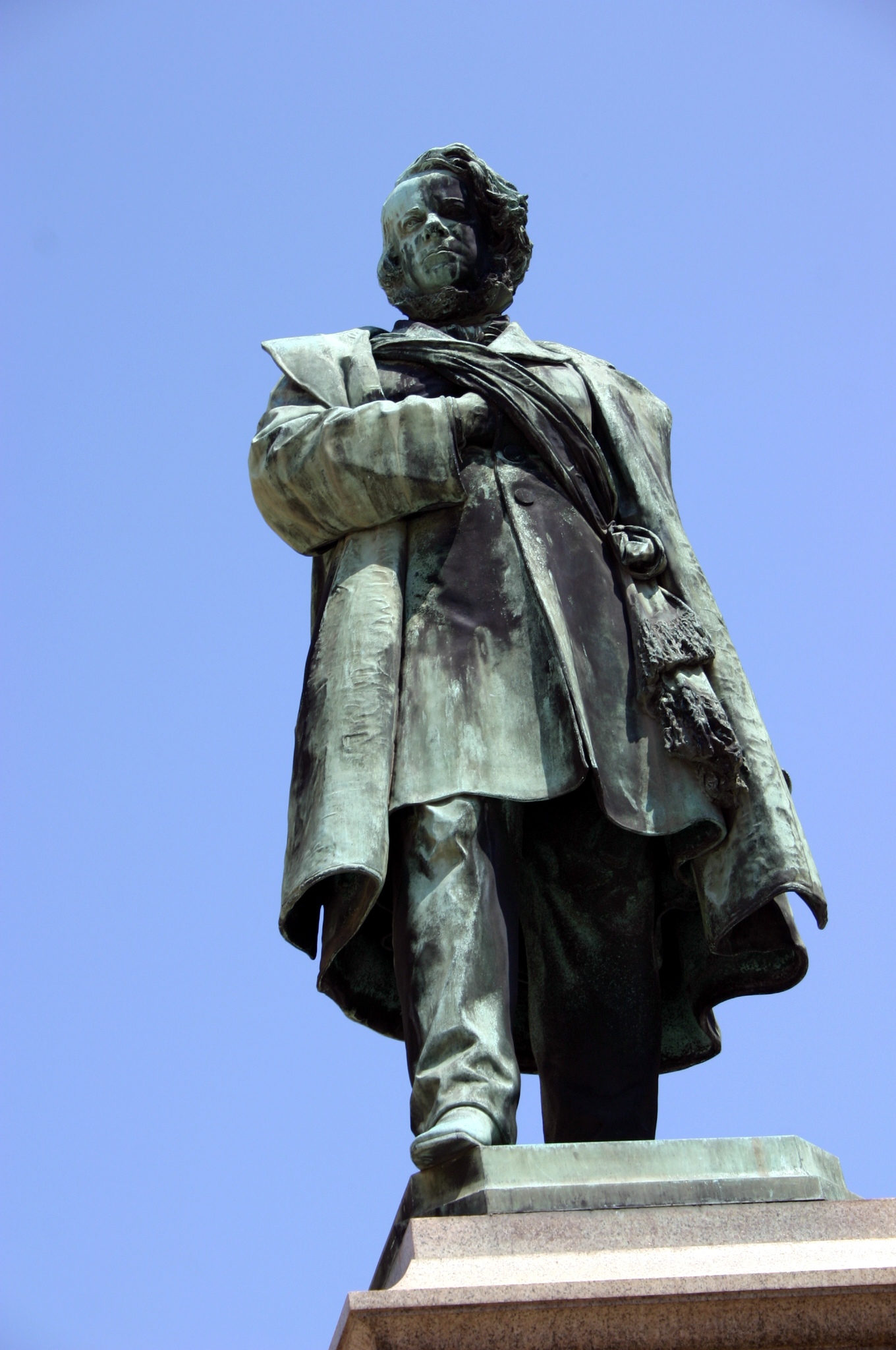 The 1875 bronze monument to Venetian patriot Daniele Manin, modelled by Luigi Borro (1826-1886), was erected in Venice in the middle of Campo Manin, the square on which faces Manin's home (the statue looks towards it). Picture by Giovanni Dall'Orto, August 6, 2007.